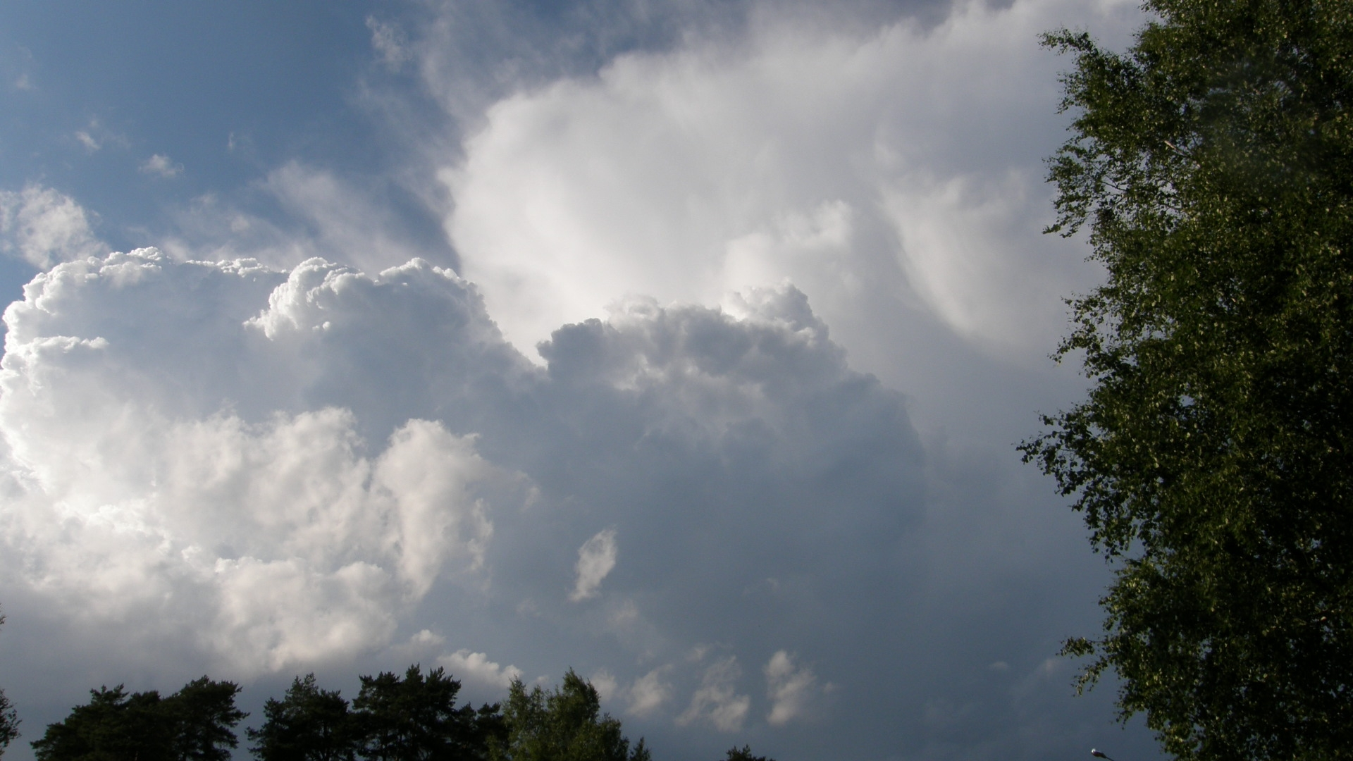 Rara supercell-type tyhudestorm rising in middle Finland. Note fibrous anvil cloud. Bottom of cumulonimbus-type thundercloud is very dark.